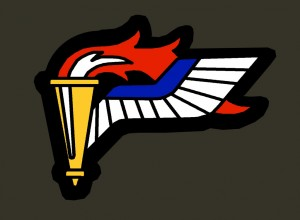 Dutch Pathfinder emblem